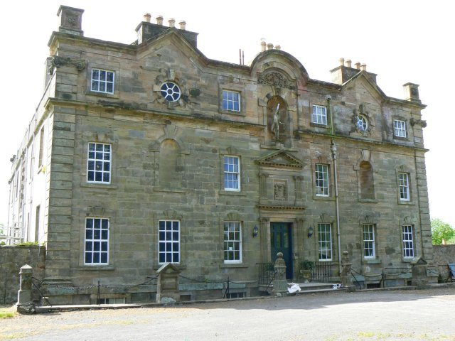 Innergellie House This mansion house near Anstruther was built in 1740 for Robert Lumsdaine. This gentleman was a leading member of what is known as the Beggar's Benison, a thriving 18th century sex-club in Anstruther and the niche above the front door of the house still displays a statue of Mercury, the patron deity of auto-eroticism.